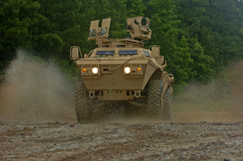 Soldiers from the 116th Brigade Combat Team splash through the mud during driver's training in the new M1200 Armored Knight June 17 at Fort Pickett.